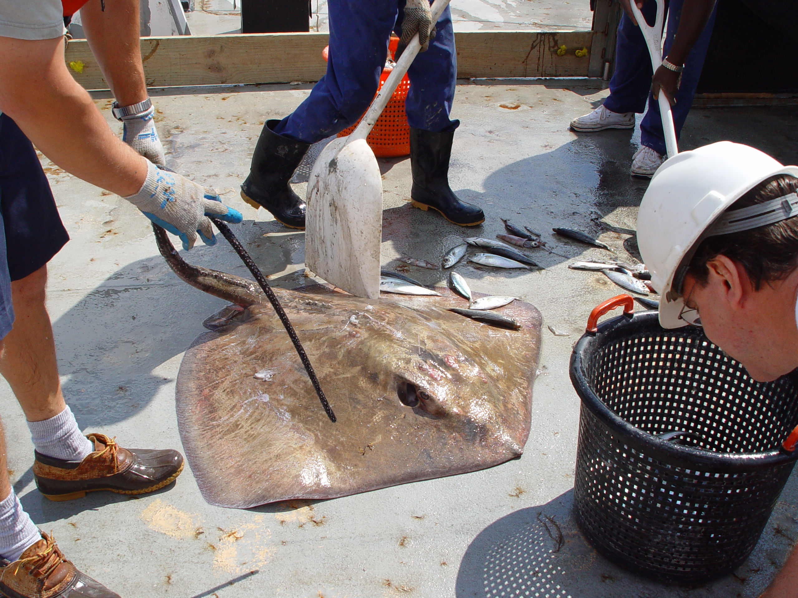 Roughtail stingray (Dasyatis centroura), caught in the Gulf of Mexico